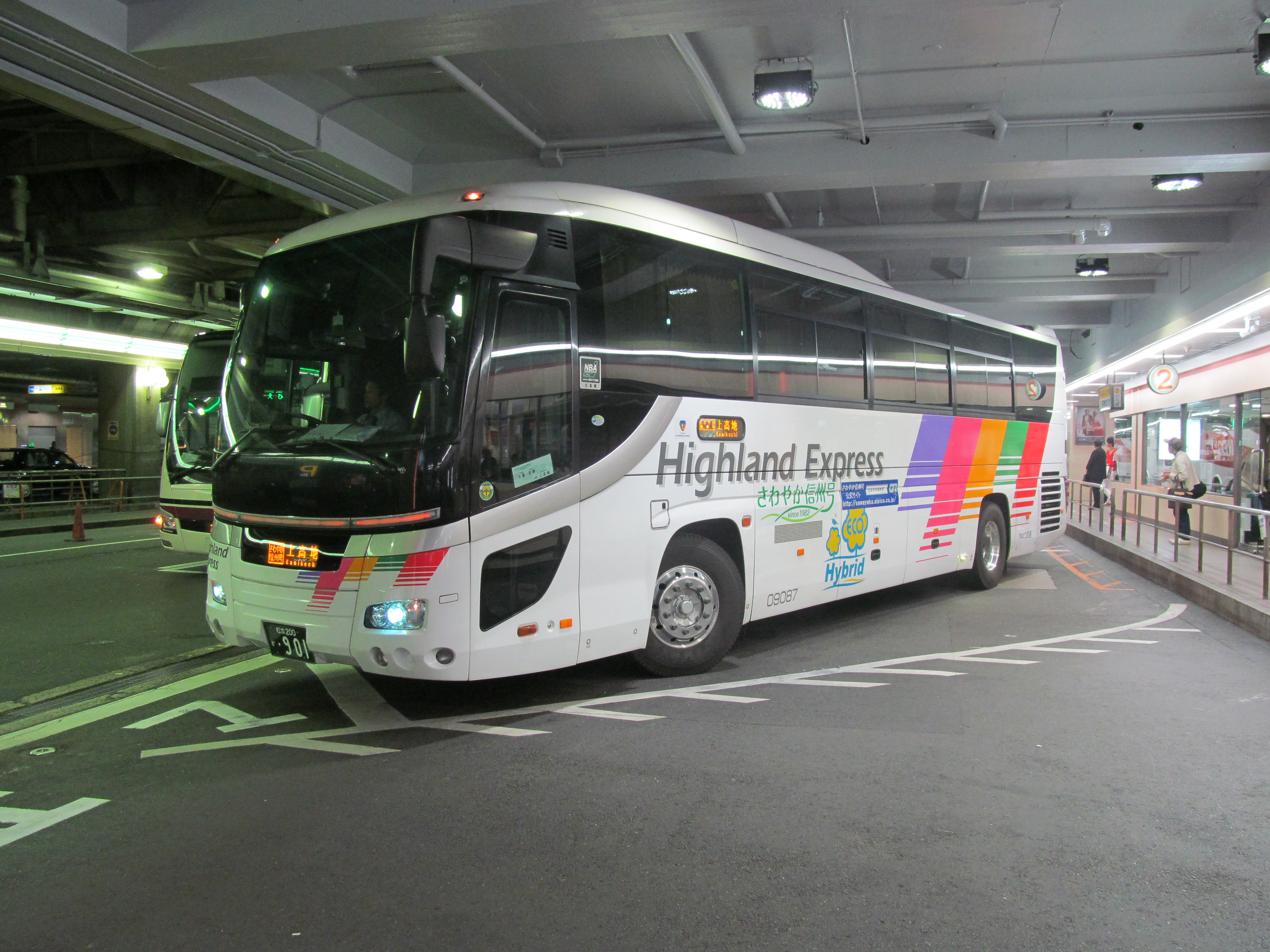 Alpico Trafic SawayakaShinsyuu kyoto osakaRute Gleancars Hivrid Highway Bus 09087 3